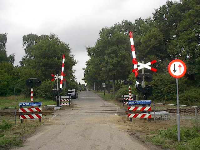 Picture taken by B. Benner from Prorail and released to Public Domain.